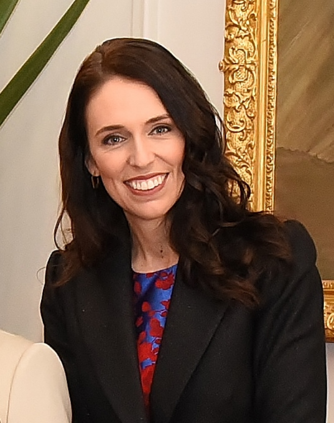 Cropped image of Jacinda Ardern at the swearing-in ceremony on the 26th of October 2017.